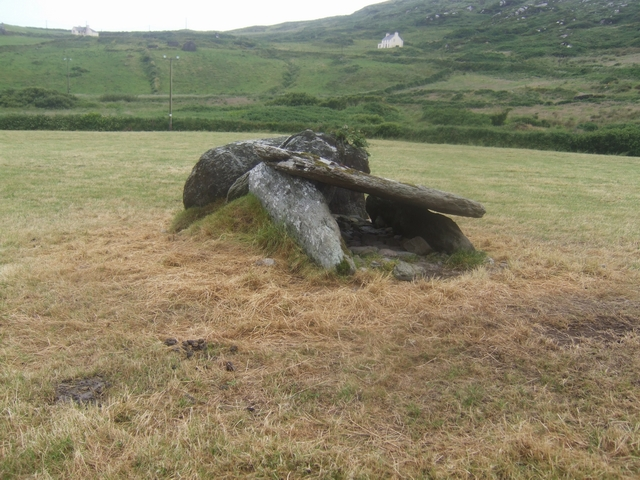 Killough West Wedge Tomb Wedge tombs typically date from the Bronze Age and the wedge is due to the taper from the front to rear. Sometimes also known as cromlechs.